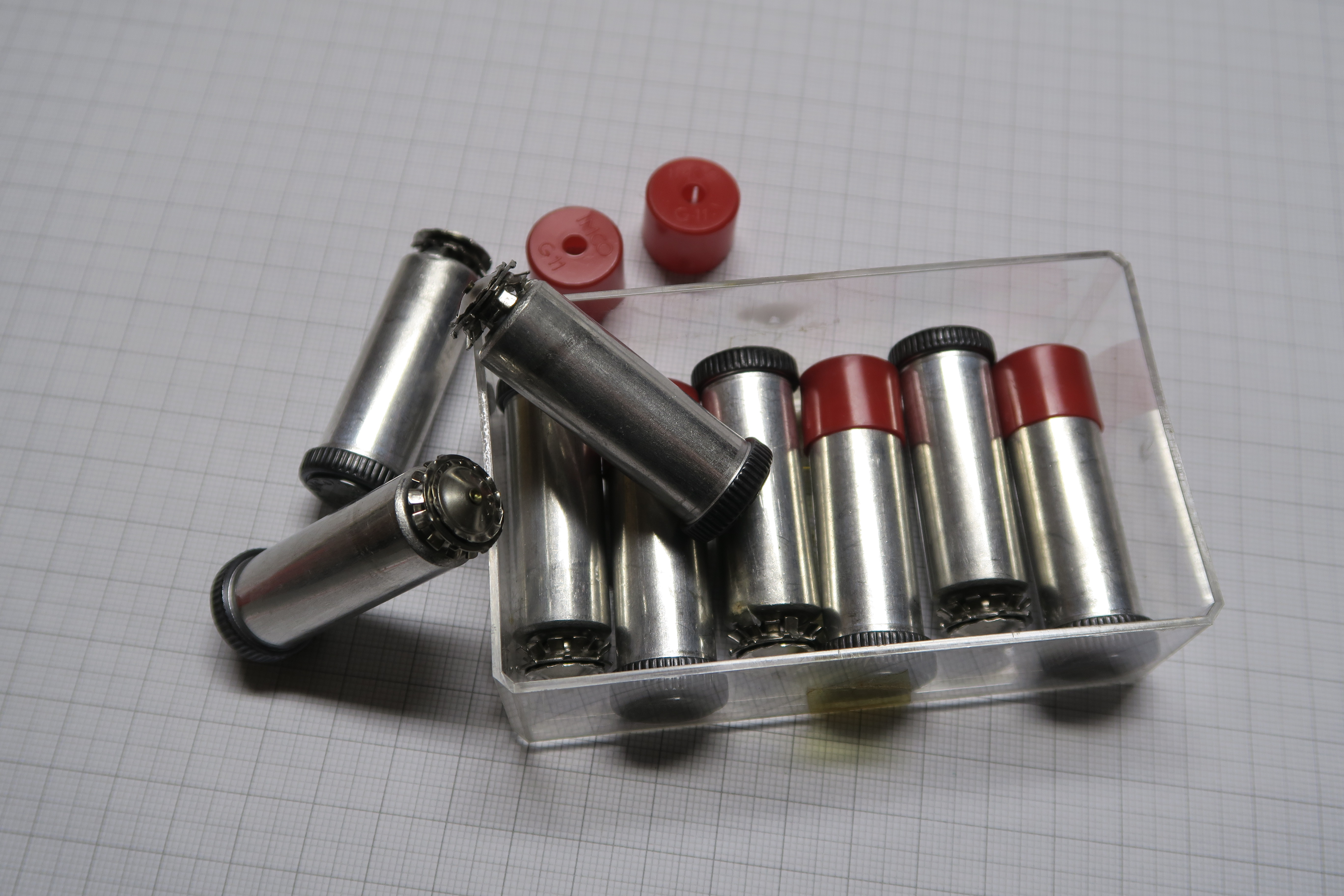 IMCO Type G11 Gas Tanks Refills Feuerzeug